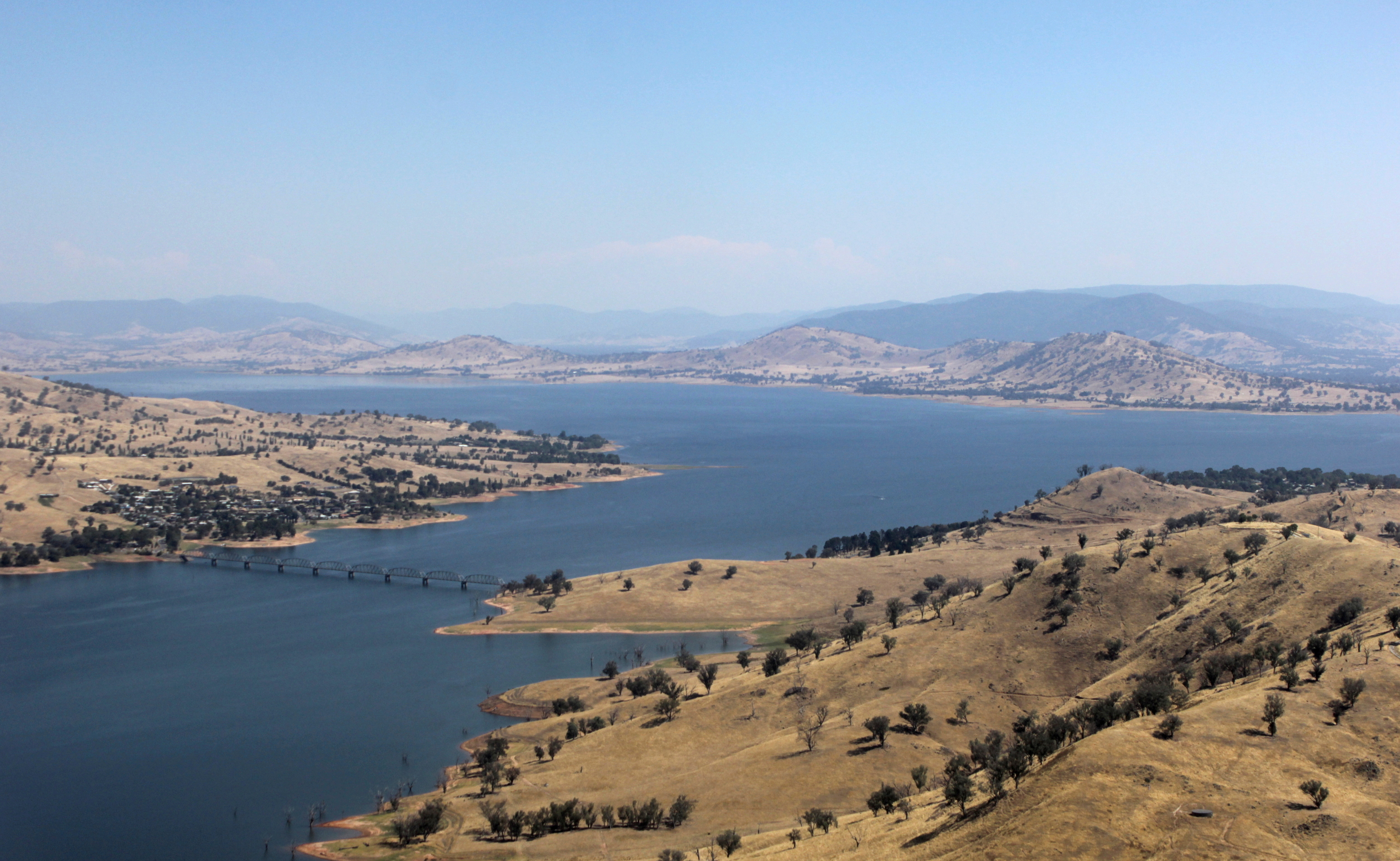 An aerial photograph of Lake Hume, taken on a flight from Sydney to Albury. The Bethanga Bridge is visible in the bottom left.